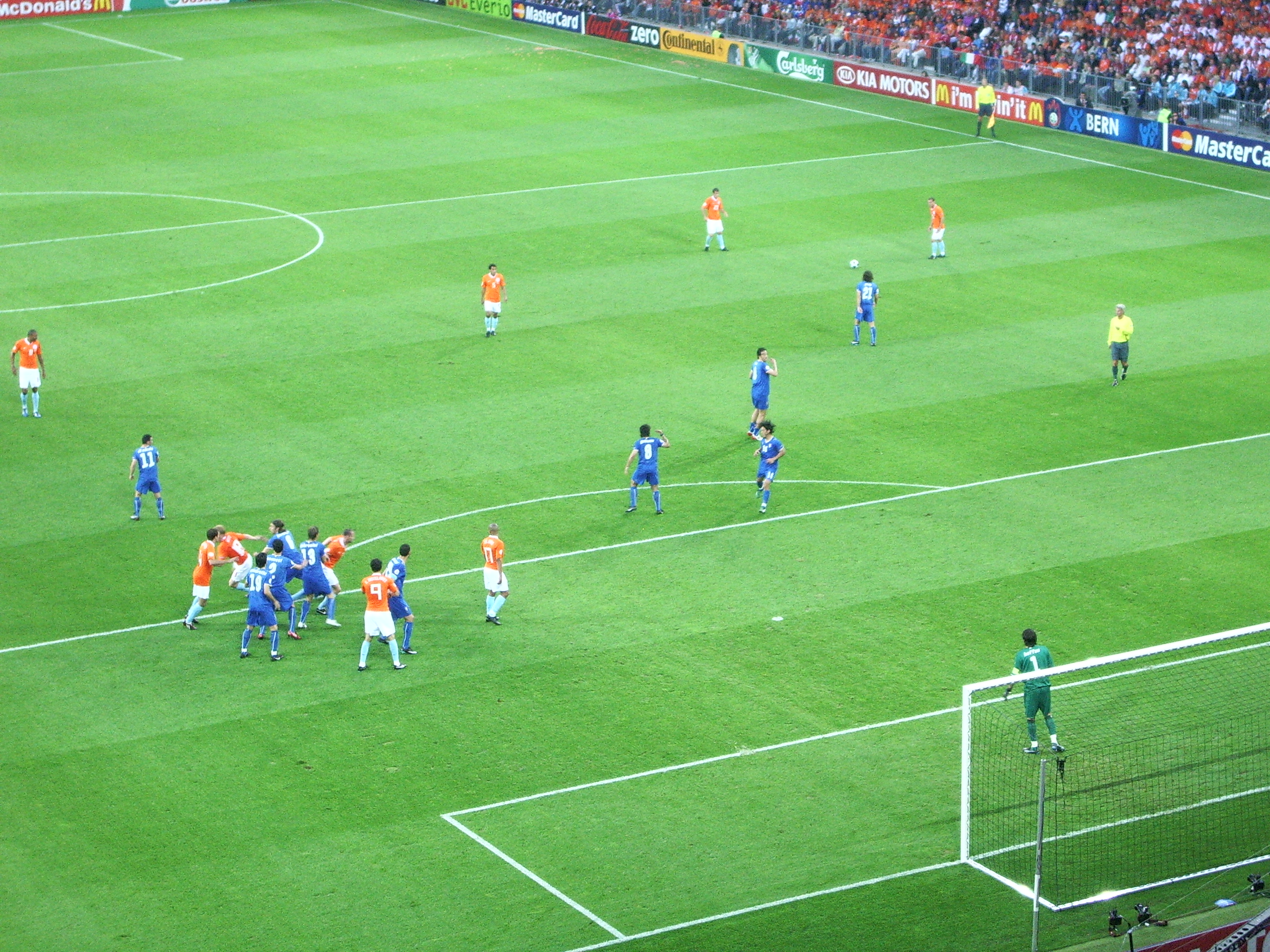 Euro 2008 Holland - Italy. Free kick of Holland in first half